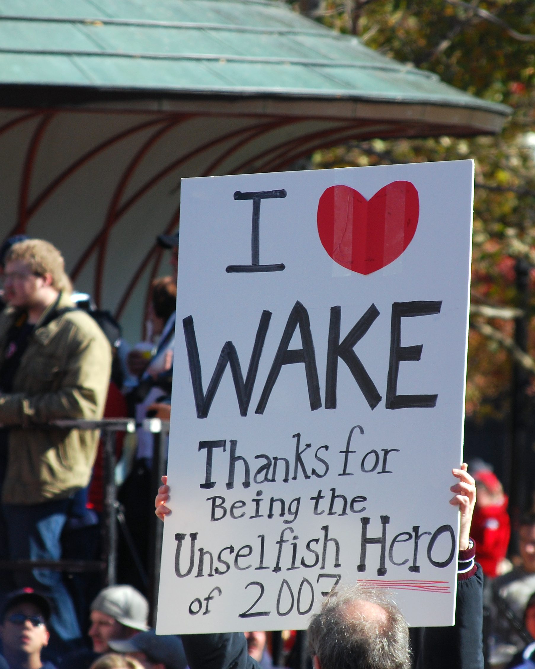 Photo from 2007 rolling rally.